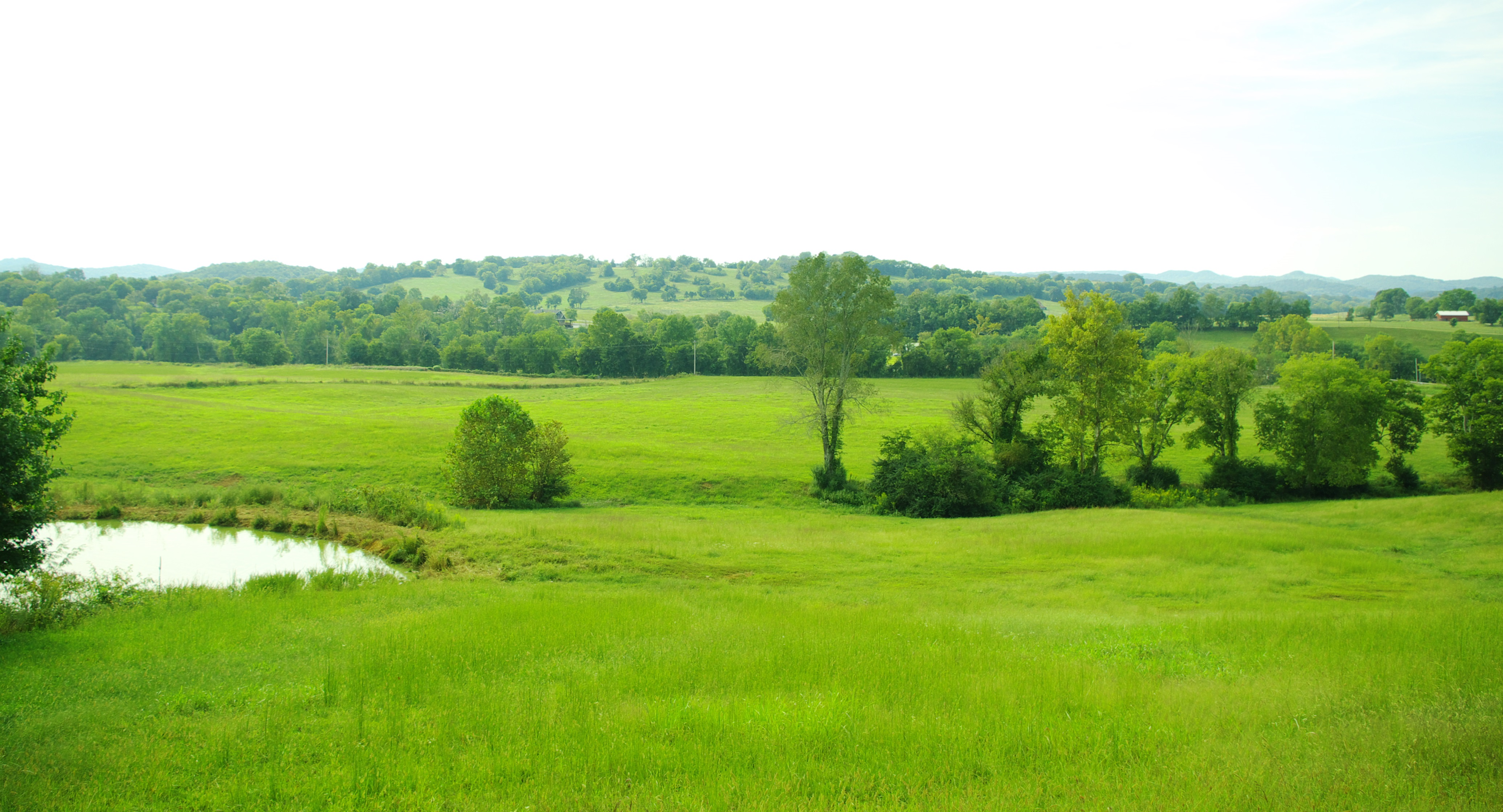 Rural Smith County, Tennessee, United States, looking across the Caney Fork valley north of Gordonsville. The river is marked by the treeline in the distance which spans the center of the photo from left-to-right. The water on the left is part of a catch-all pond.